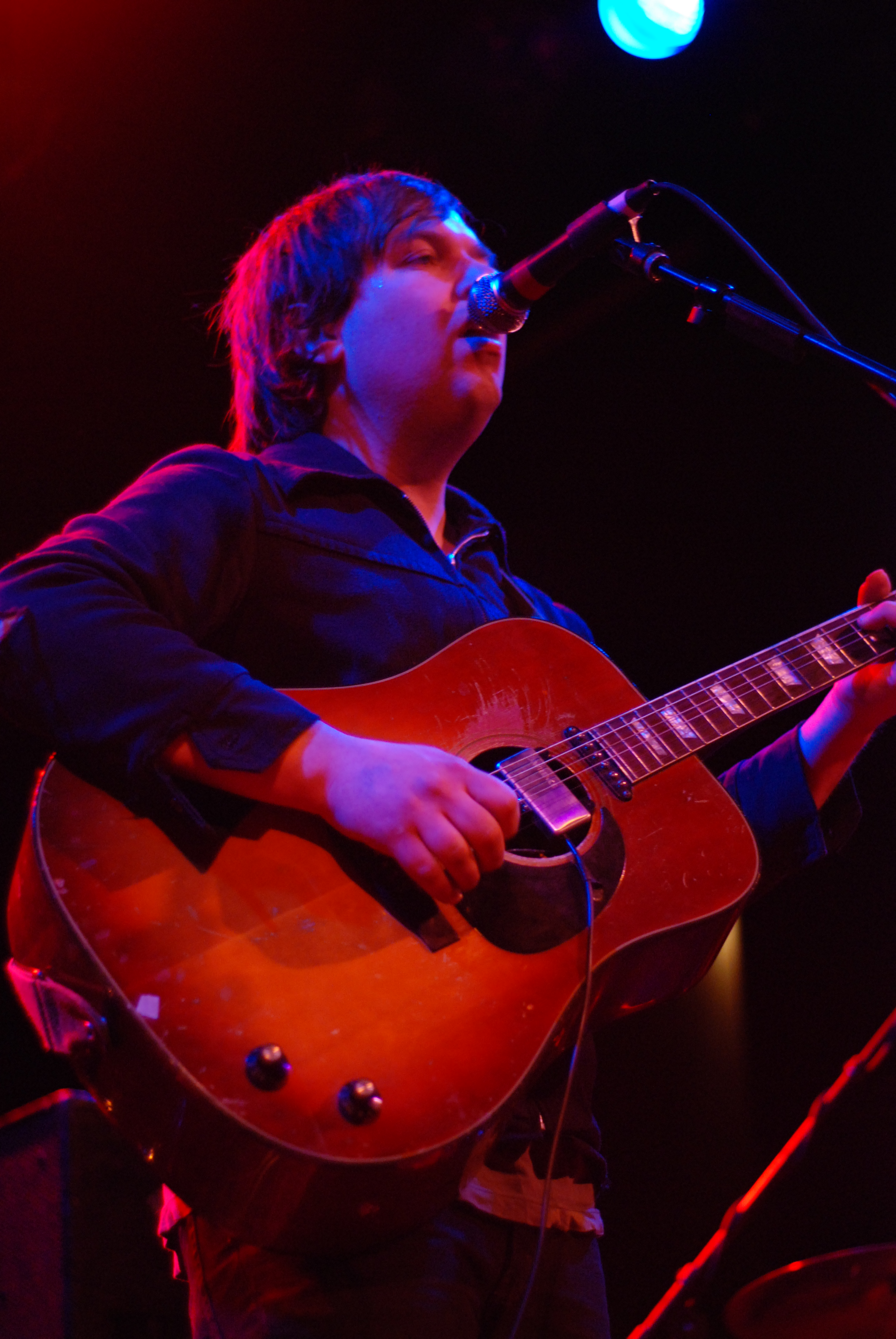 Papercuts peforming at Bowery